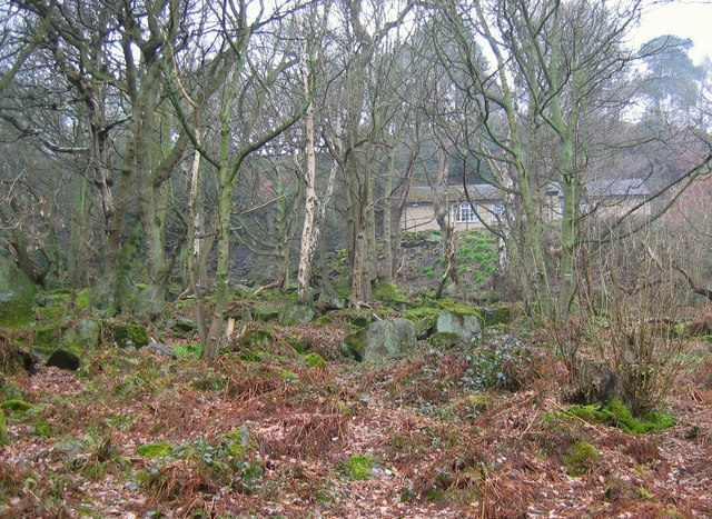 Shining Cliff Woods, Derbyshire Shining Cliff Youth Hostel. This basic youth hostel is in the ancient woodland of Shining Cliff Wood. Parking is a 10 minute walk away. OSGB36: geotagged! SK 335 522 [100m precision] WGS84: 53:3.9598N 1:30.0915W